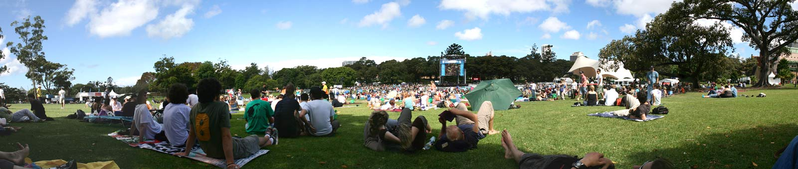 A panoramic photo of Tropfest 2007